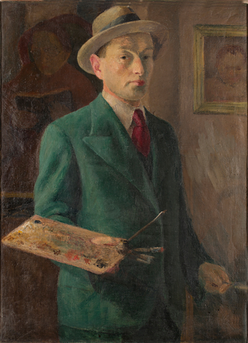 Self-portrait